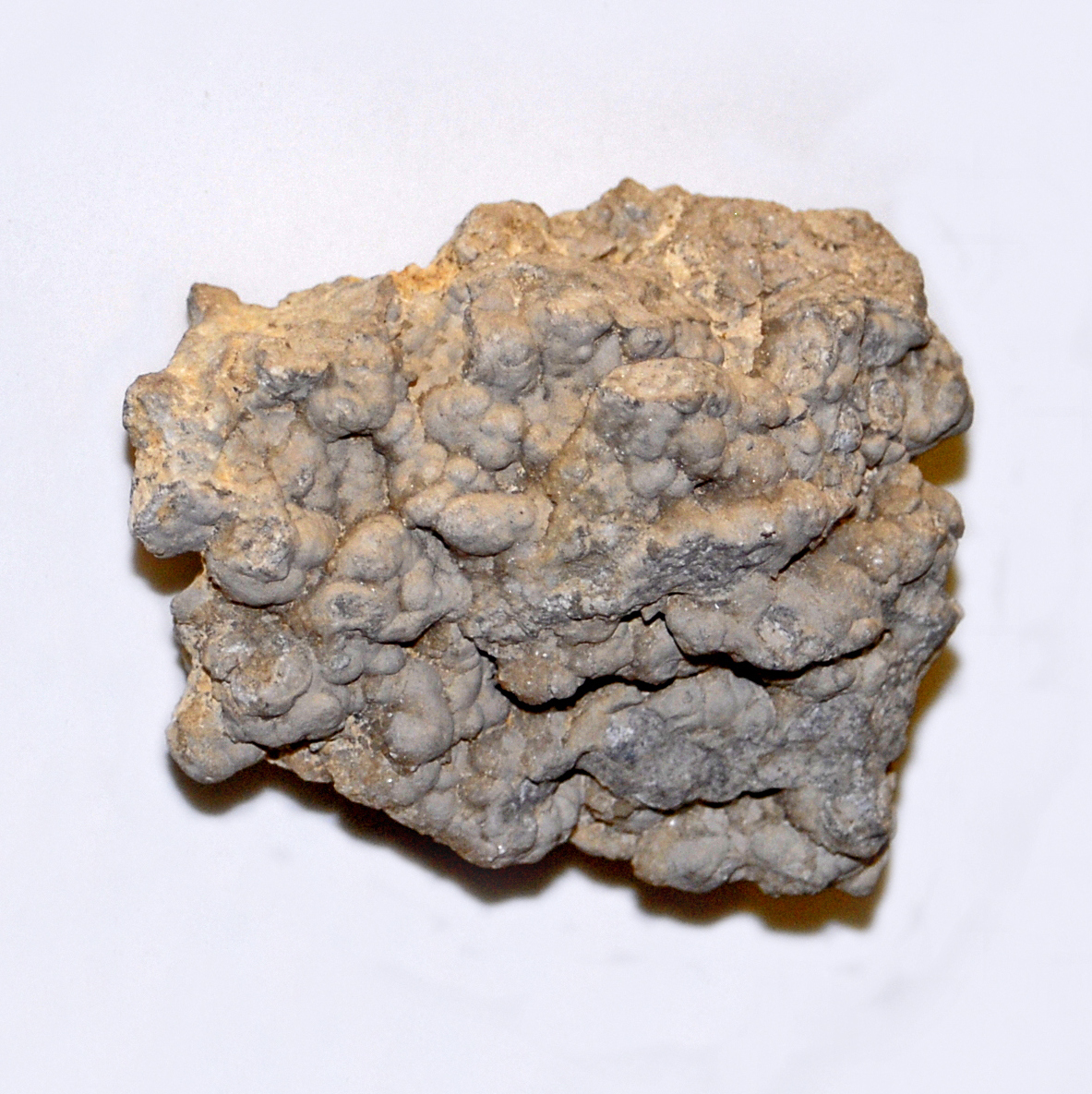 Fossils of Solenopora species, on display at the Museo Civico di Storia Naturale di Milano